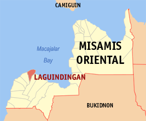 Map of the Misamis Oriental showing the location of Laguindingan